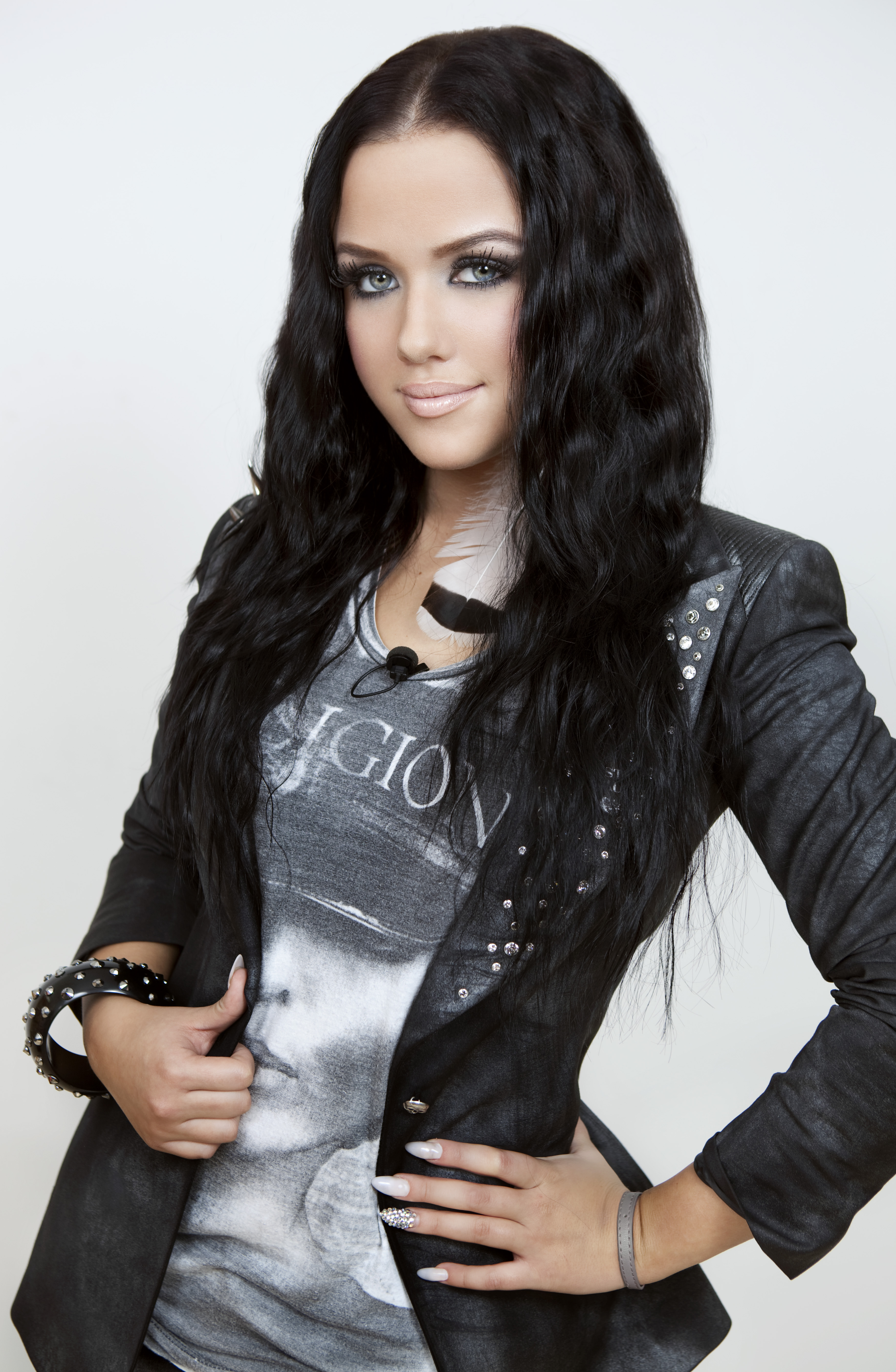 Kim Gloss